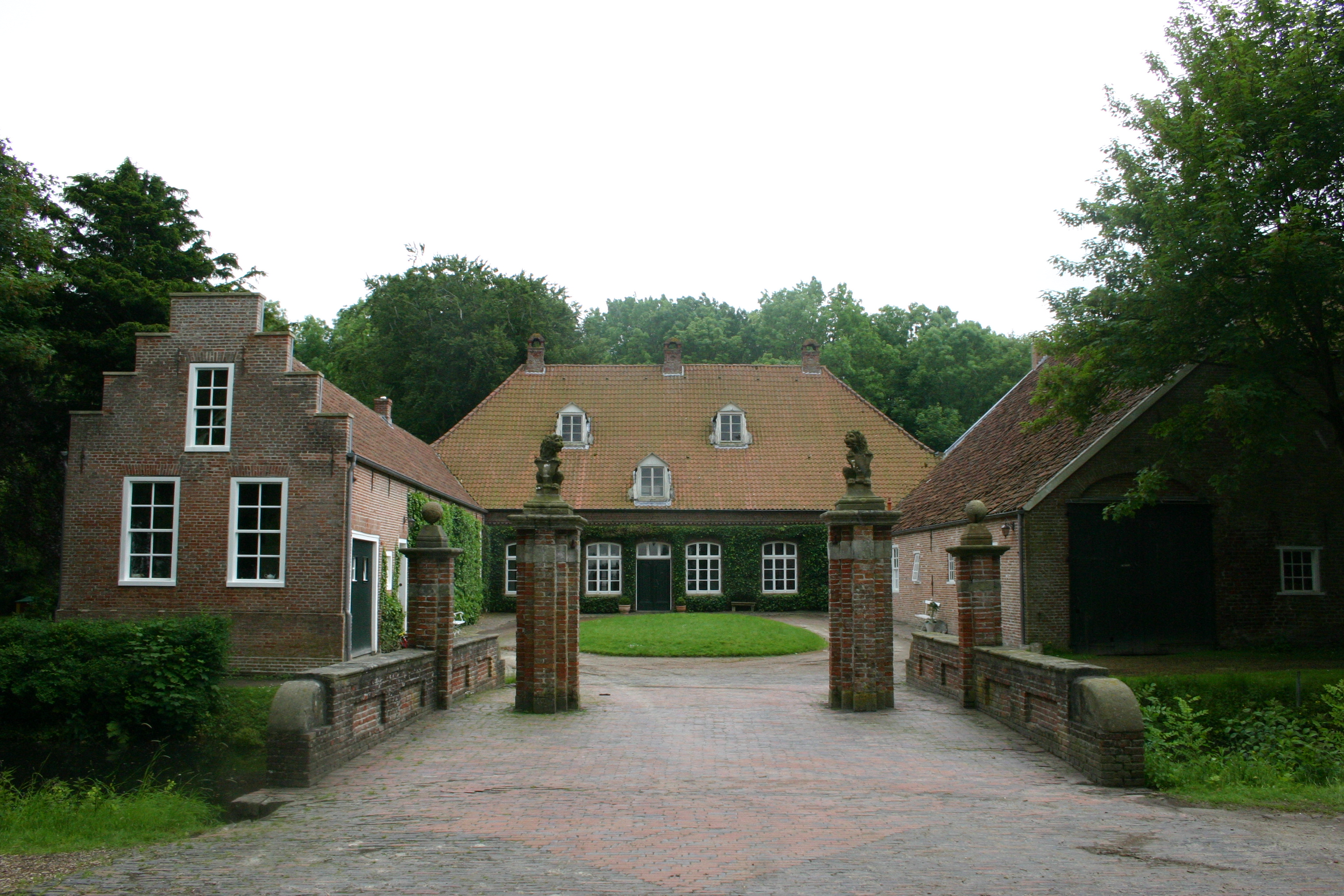 Groothusen Castle, district of Aurich, East Frisia, Germany